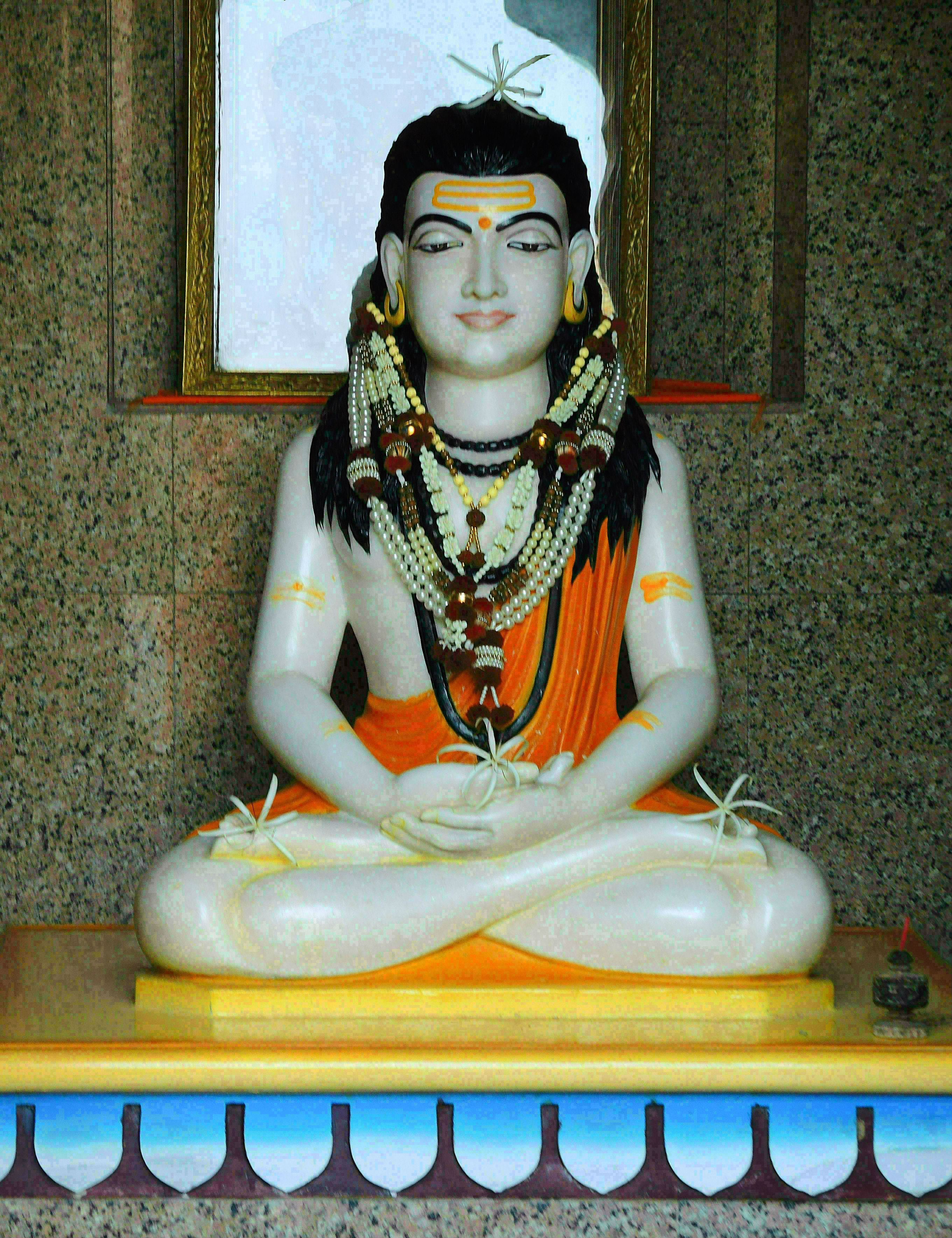 Murti of Goraknath in some temple in Laxmangarh, India